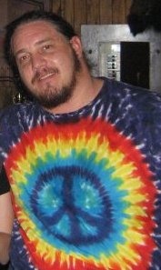 Chris Parks in Belleville, Michigan on Sept. 21, 2008.